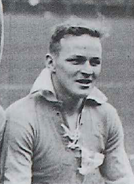 Finnish international player Arvo Närvänen. Cropped from File:FIN-NationalFootballTeam1933.png